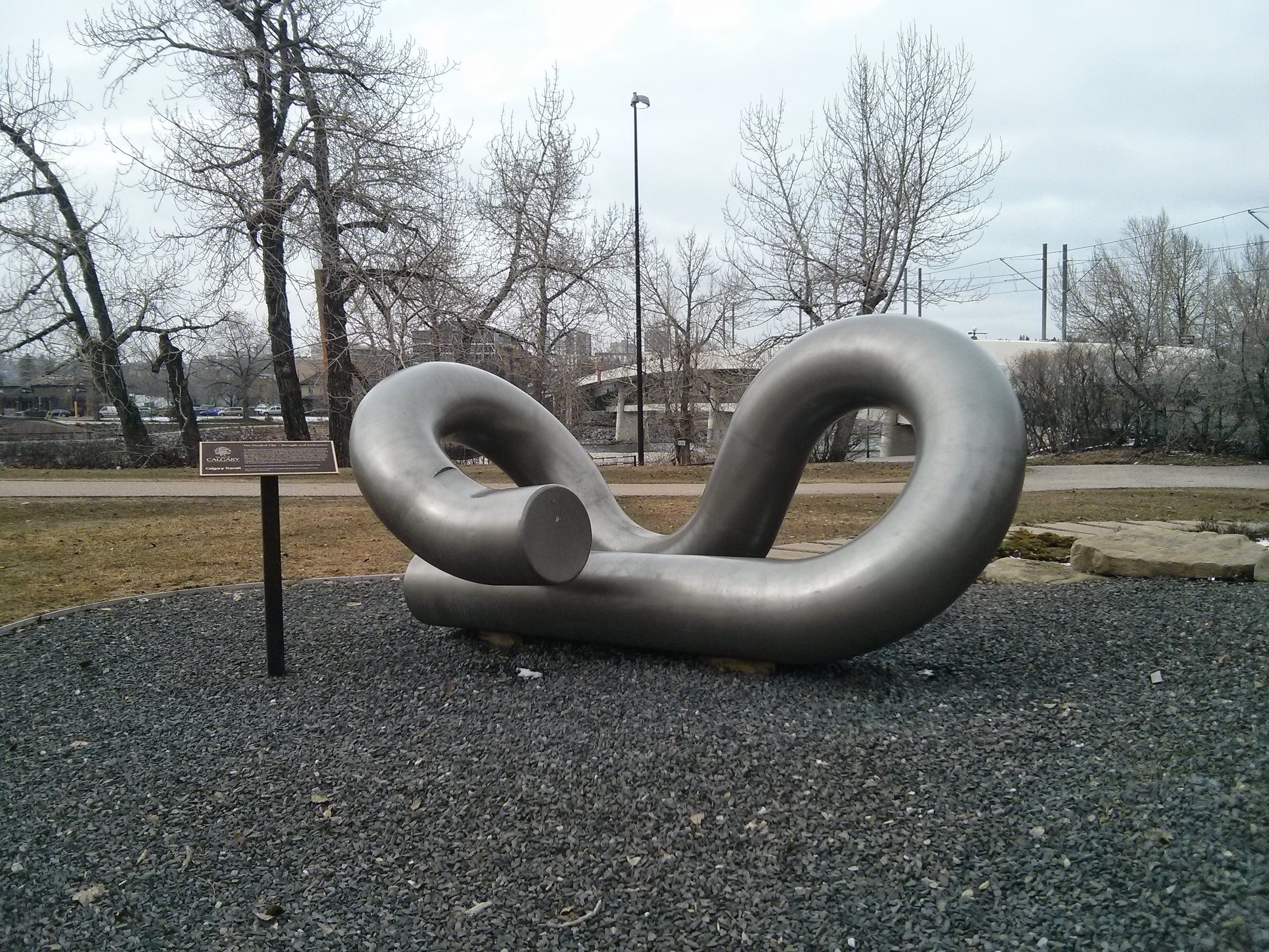 Sculpture of a Pandrol clip in Calgary, Alberta, Canada.